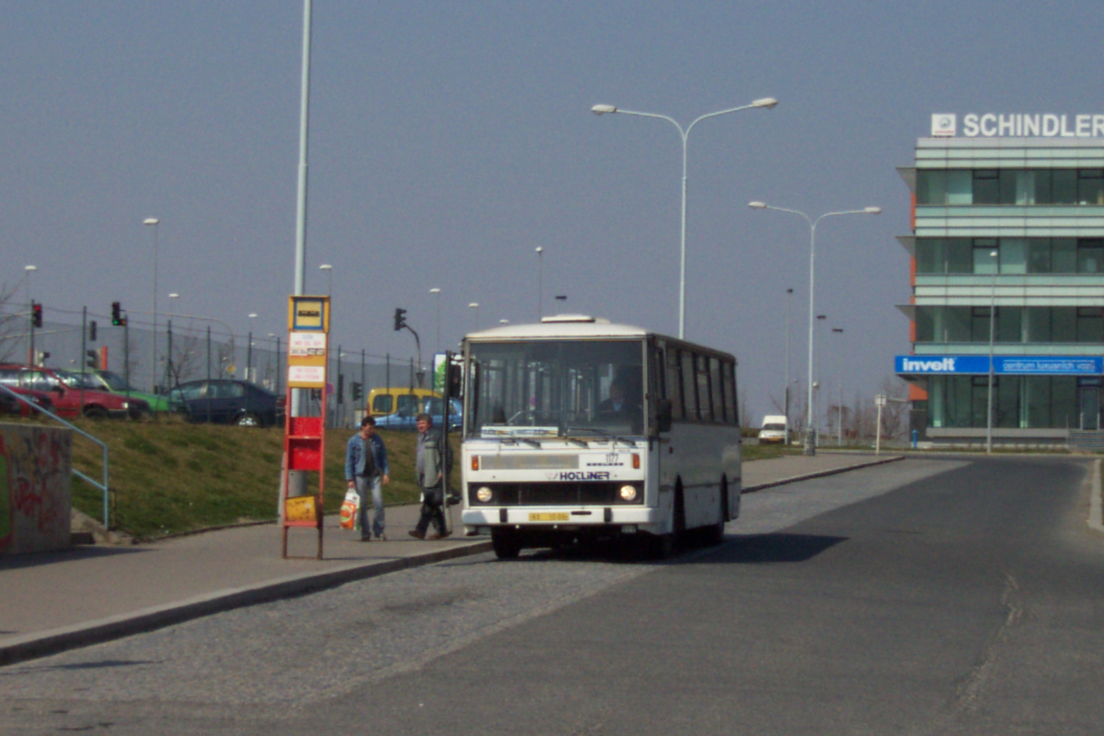 Hotliner bus at Prague Zličín